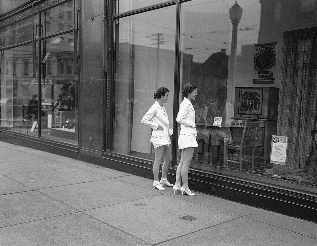 Window shopping at Eaton's department store. (Toronto, Canada)